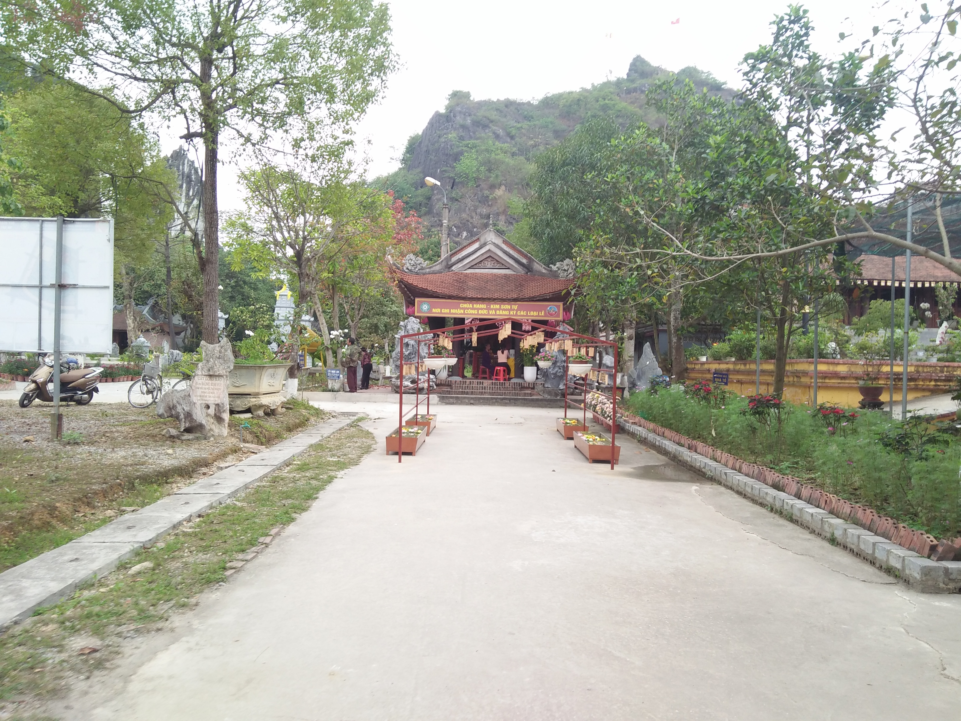 Chùa Hang